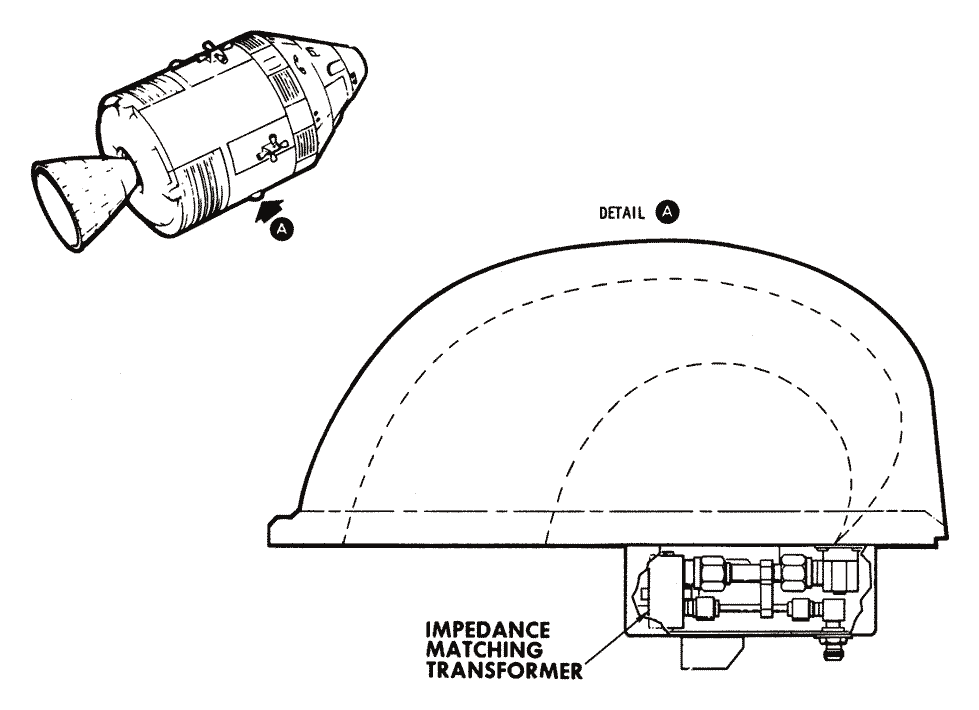 Detail of the Apollo Block II Command/Service Module VHF scimitar antenna, showing locations on the Service Module